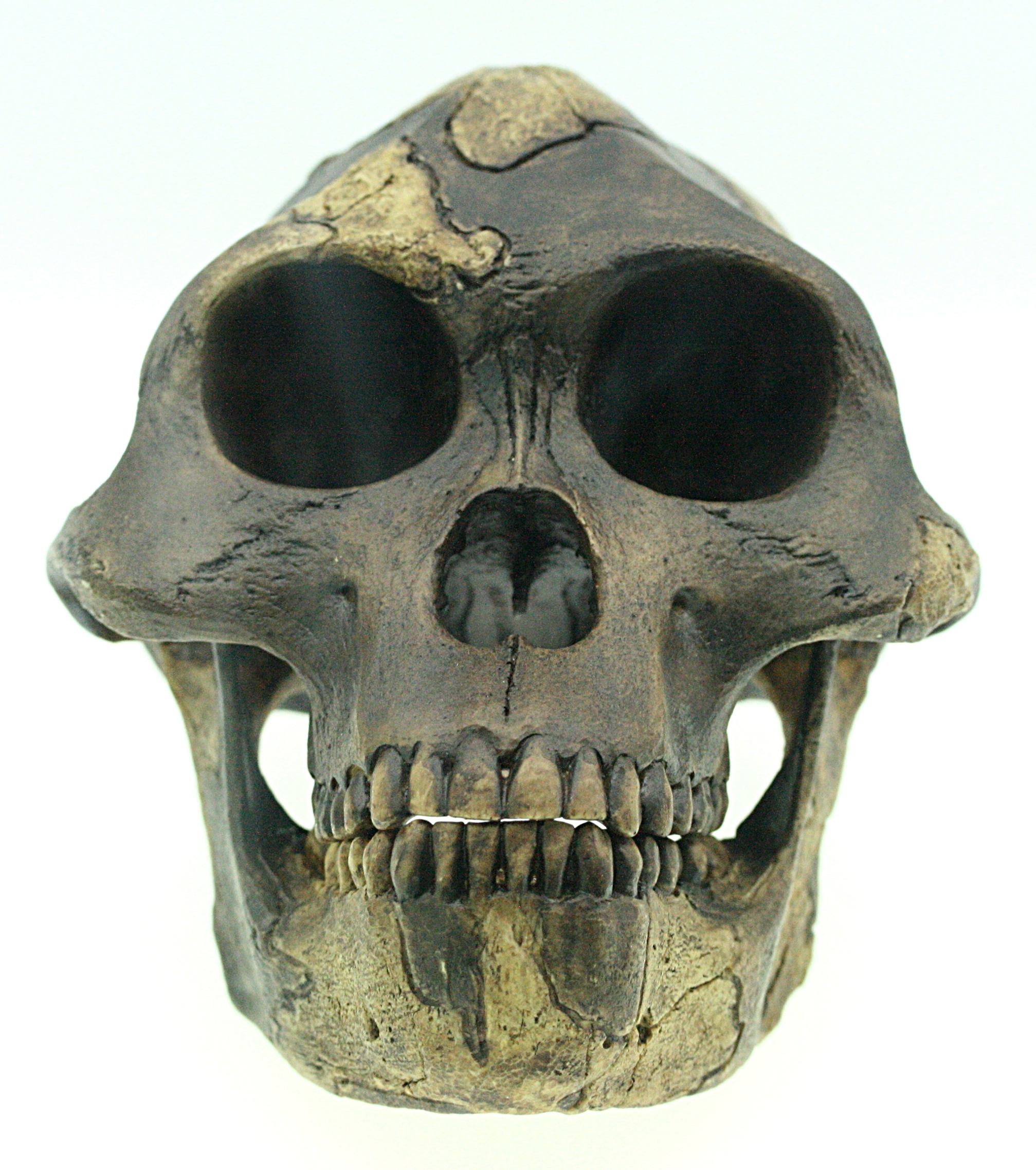 Reconstruction of the skull of Lucy, an Australopithecus afarensis. Photo taken at: Museum of natural history, Basel (Switzerland).